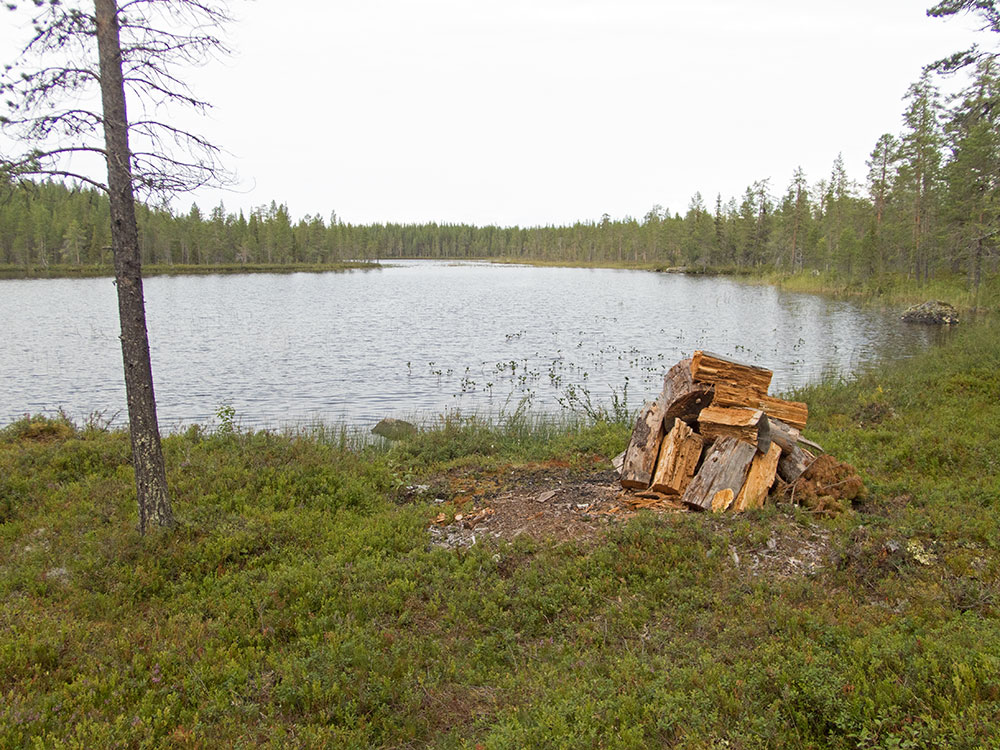 Lake Spenningstjärnen, Arvidsjaurs Municipality, Swedish Lappland.